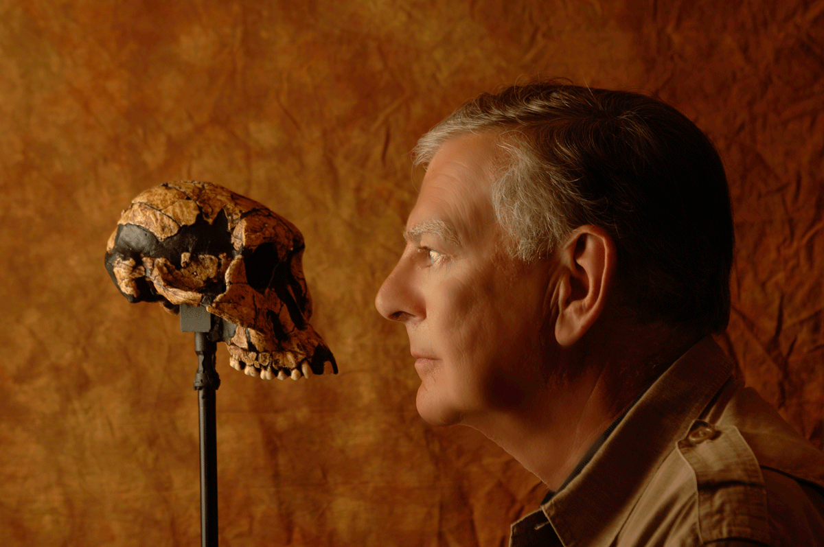 Professor Donald Johanson, Institute of Human Origins, Arizona State University